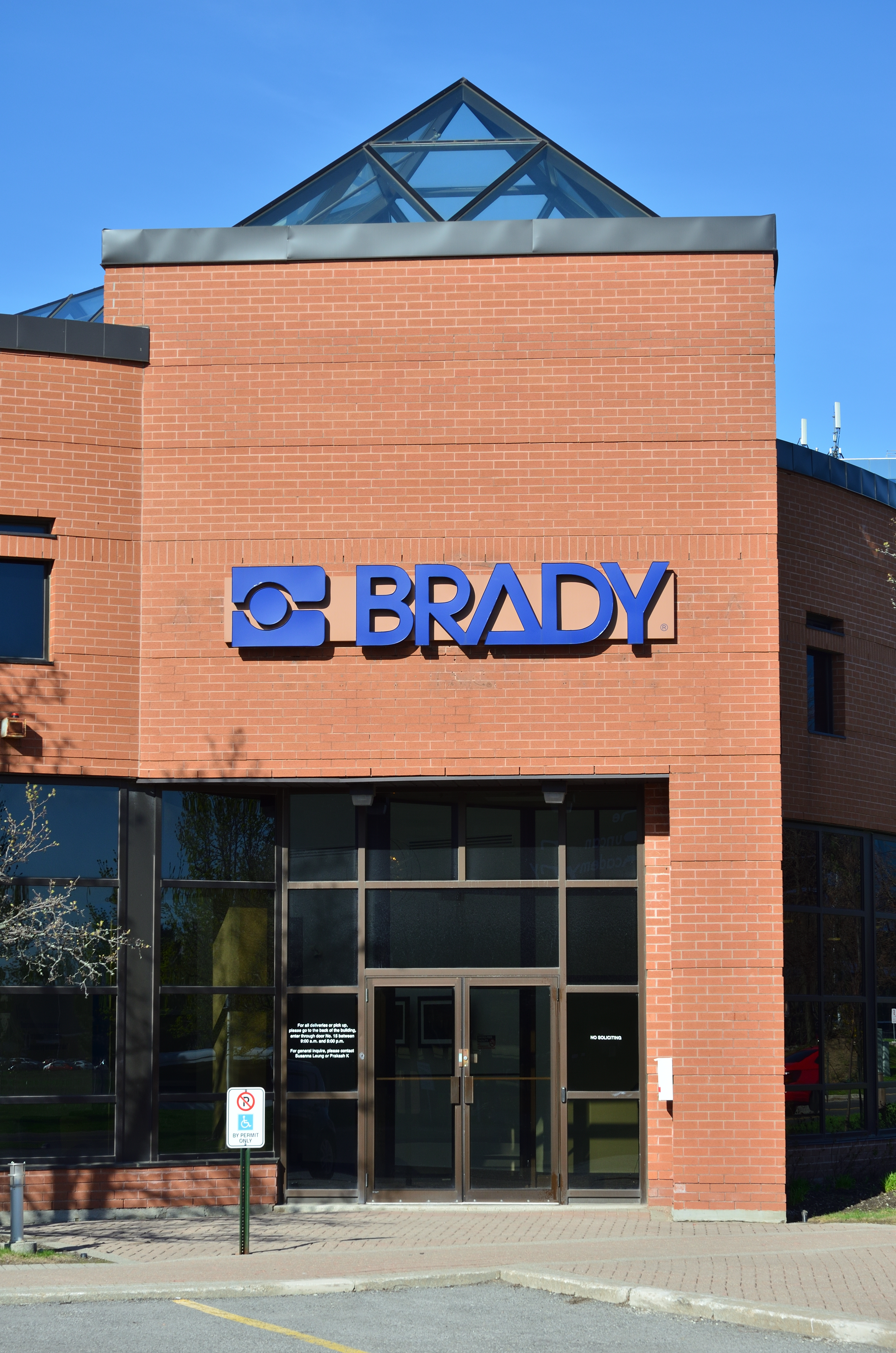 Brady Corporation in Markham